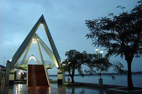 Marine drive waterfront walkway at Kochi, Kerala. (c)Shiras Rajendran. 2003